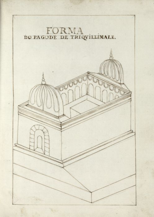 Original Koneswaram Kovil, Trincomalee - one of the three temple monuments of the Trincomalee Koneswaram Temple Compounds that was demolished in 1624 by Constantine de Sa de Noronha, drawer of this image. Original title of sketch: "Forma do Pagode de Triquinimale" retrieved from Plantas das fortalezas, pagodes & ca. da ilha de Ceilão